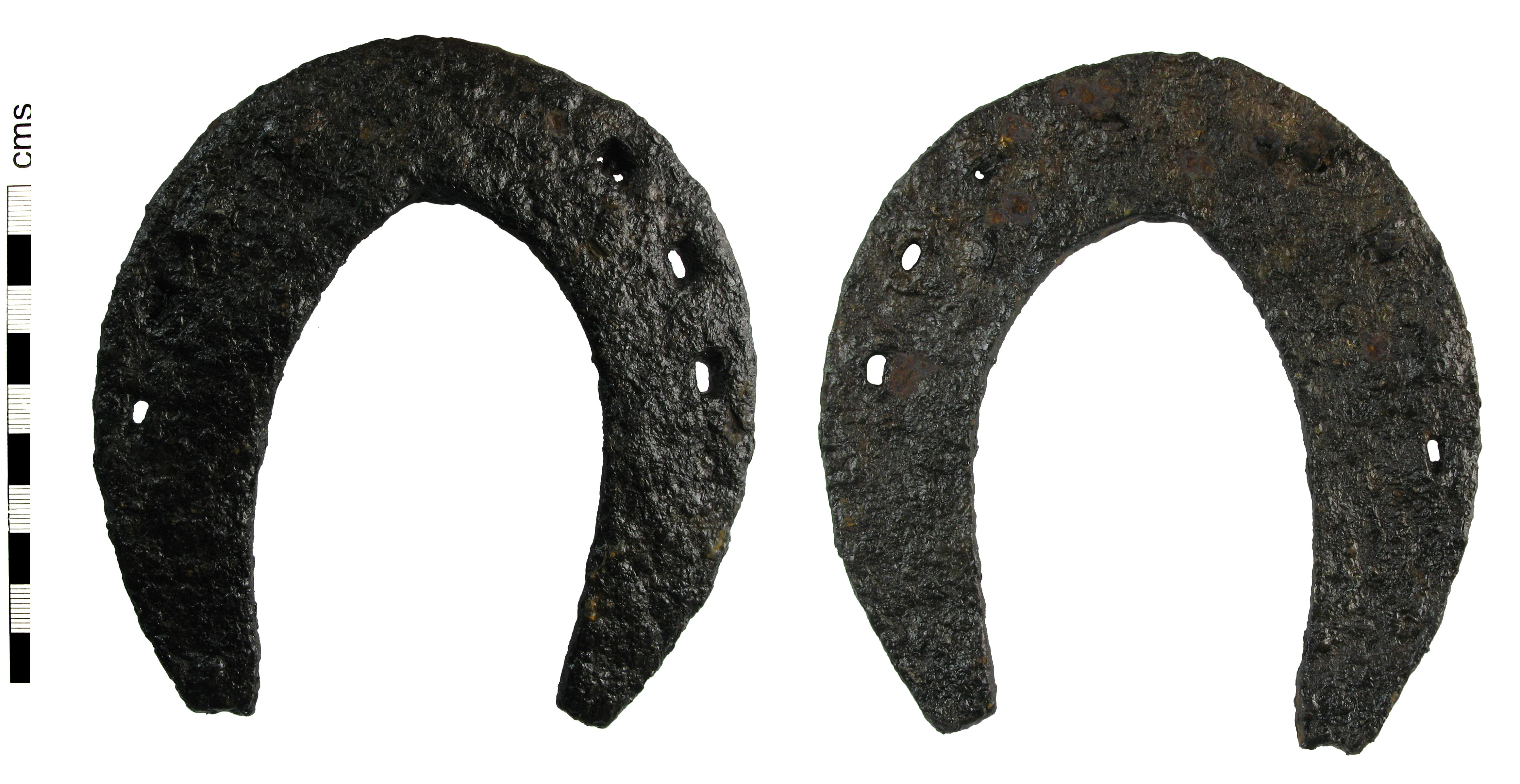 A complete wrought iron horseshoe of later medieval date. It has a rounded outer edge and an inner profile resembling a pointed arch. There is fairly clear evidence for seven nail holes, arranged three-four, although there might have been four each side (eight in total). The holes are rectangular and taper in profile. Two nails survive in situ. At the heel end any calkins present have been lost. However, this artefact generally survives well. It has a maximum web width of c. 37mm, and a minimum of c. 16mm at the heel. The internal gap at the heel measures 59.75mm. This 'later medieval' form can be found illustrated in Clark (1986, 3; fig. 8). This example is a relatively large one.